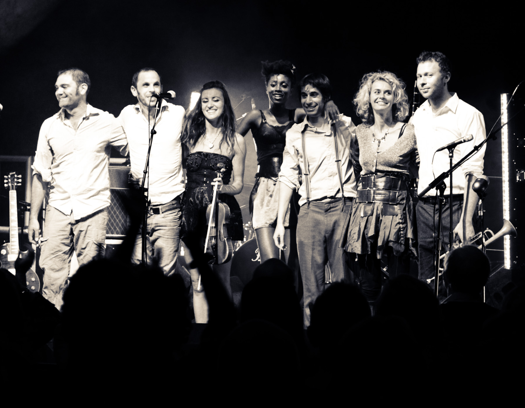 The band Oi Va Voi, performing at Cambridge, UK, at the start of their UK tour for their third album, Travelling the Face of the Globe